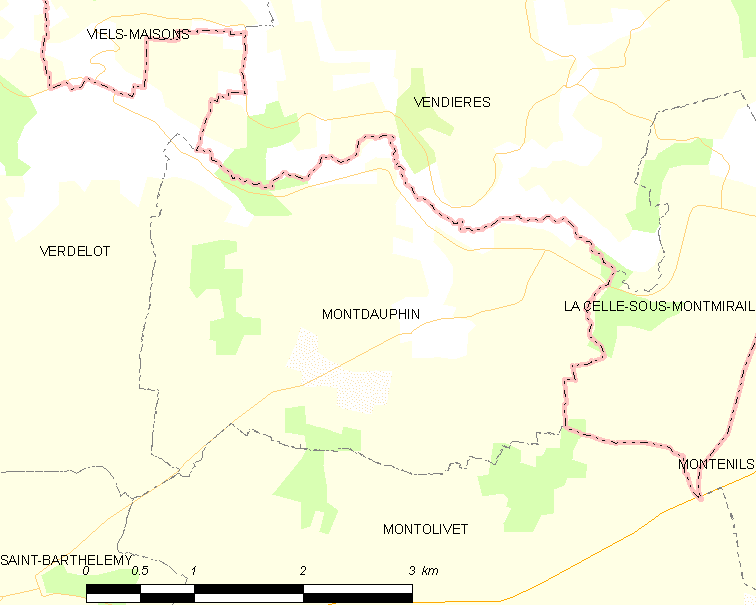 Map of French municipality Montdauphin